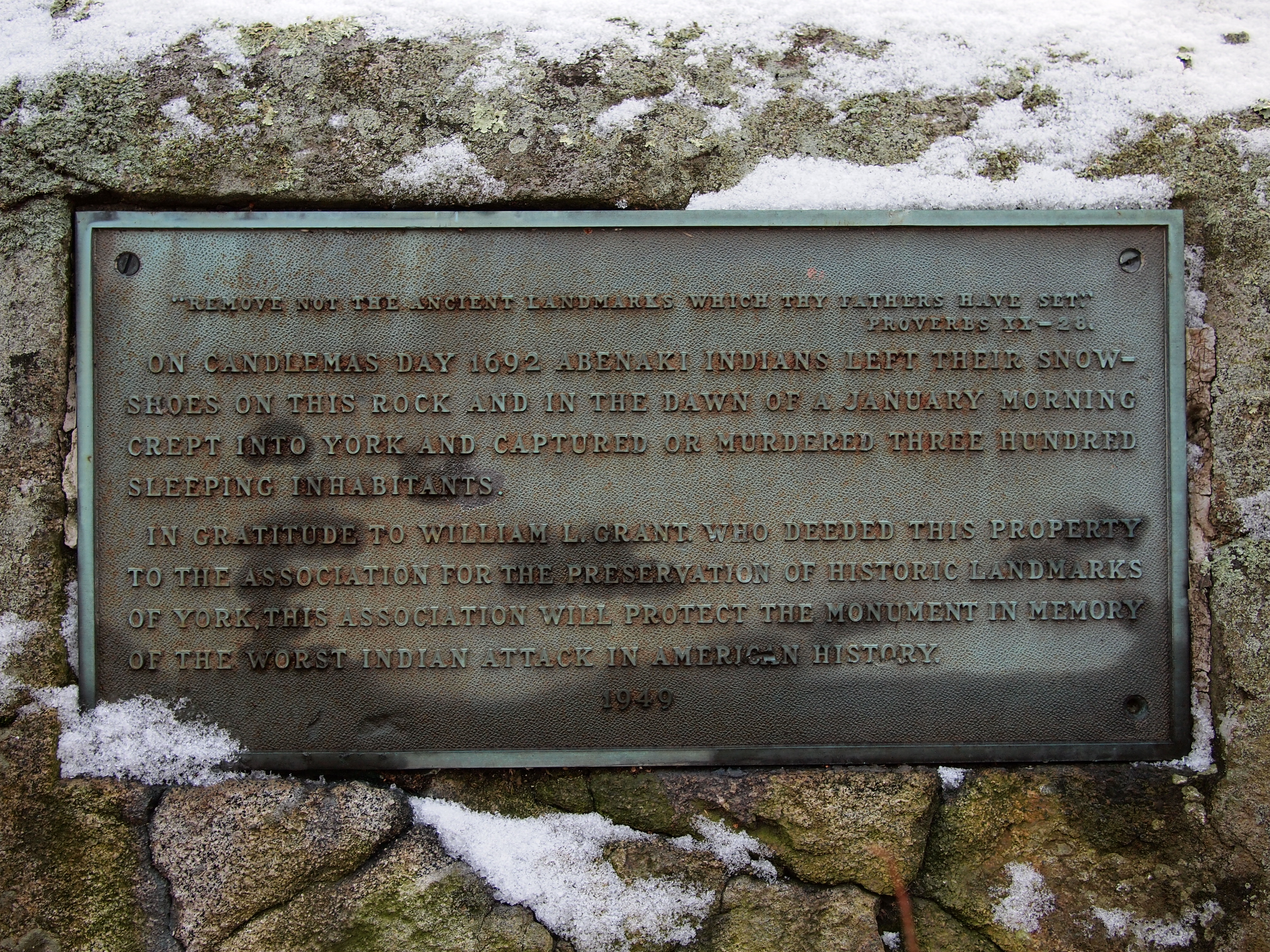 Memorial plaque to the Candlemas Massacre, located in York, ME.